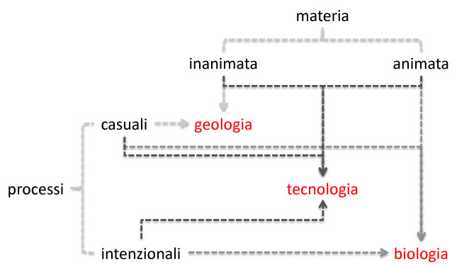 Relationships between processes and shapes